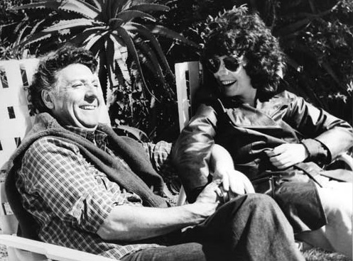 Crucero de placer-película argentina